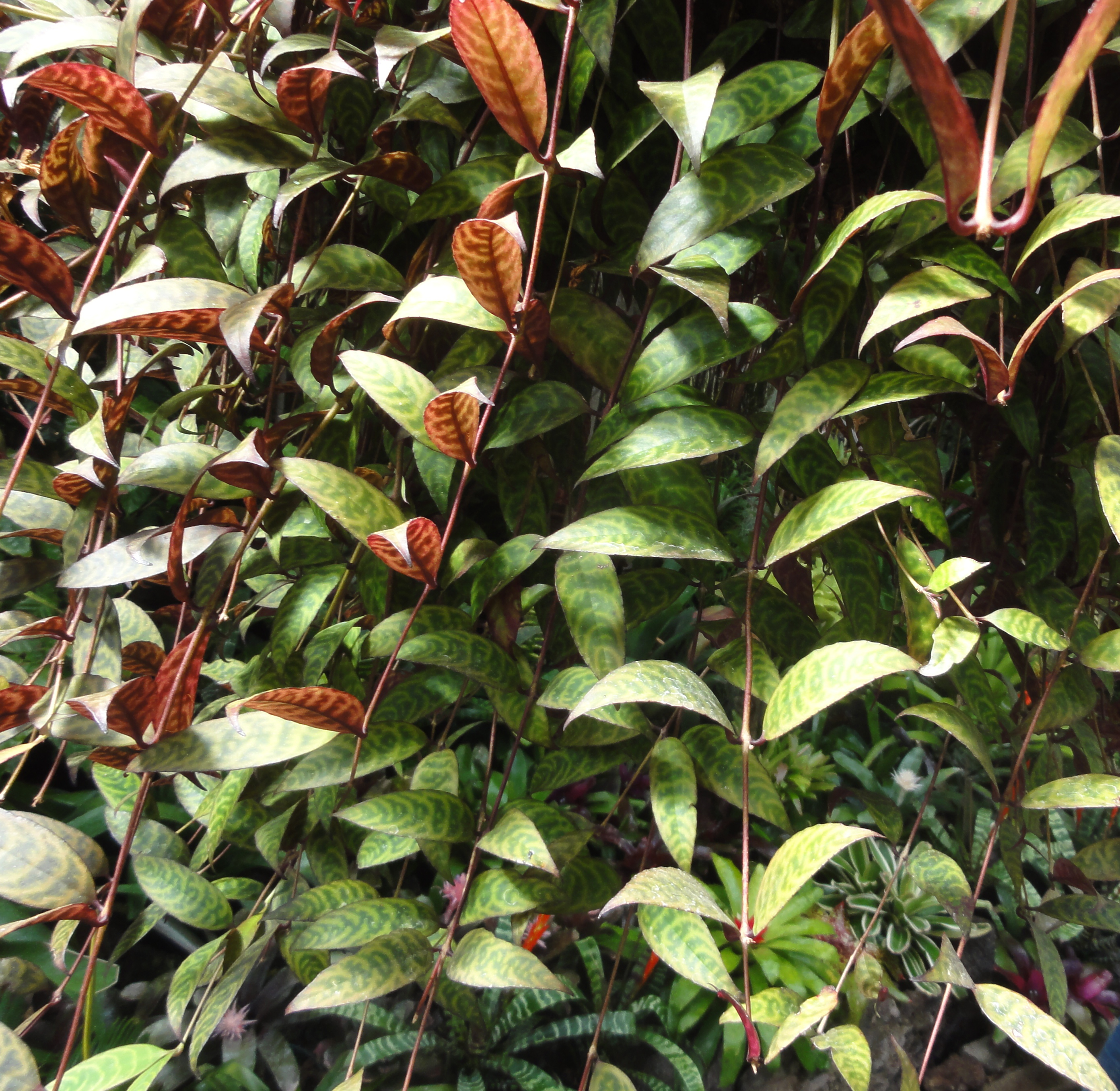 Aeschynanthus marmoratus, leaves, Auckland Winter Garden